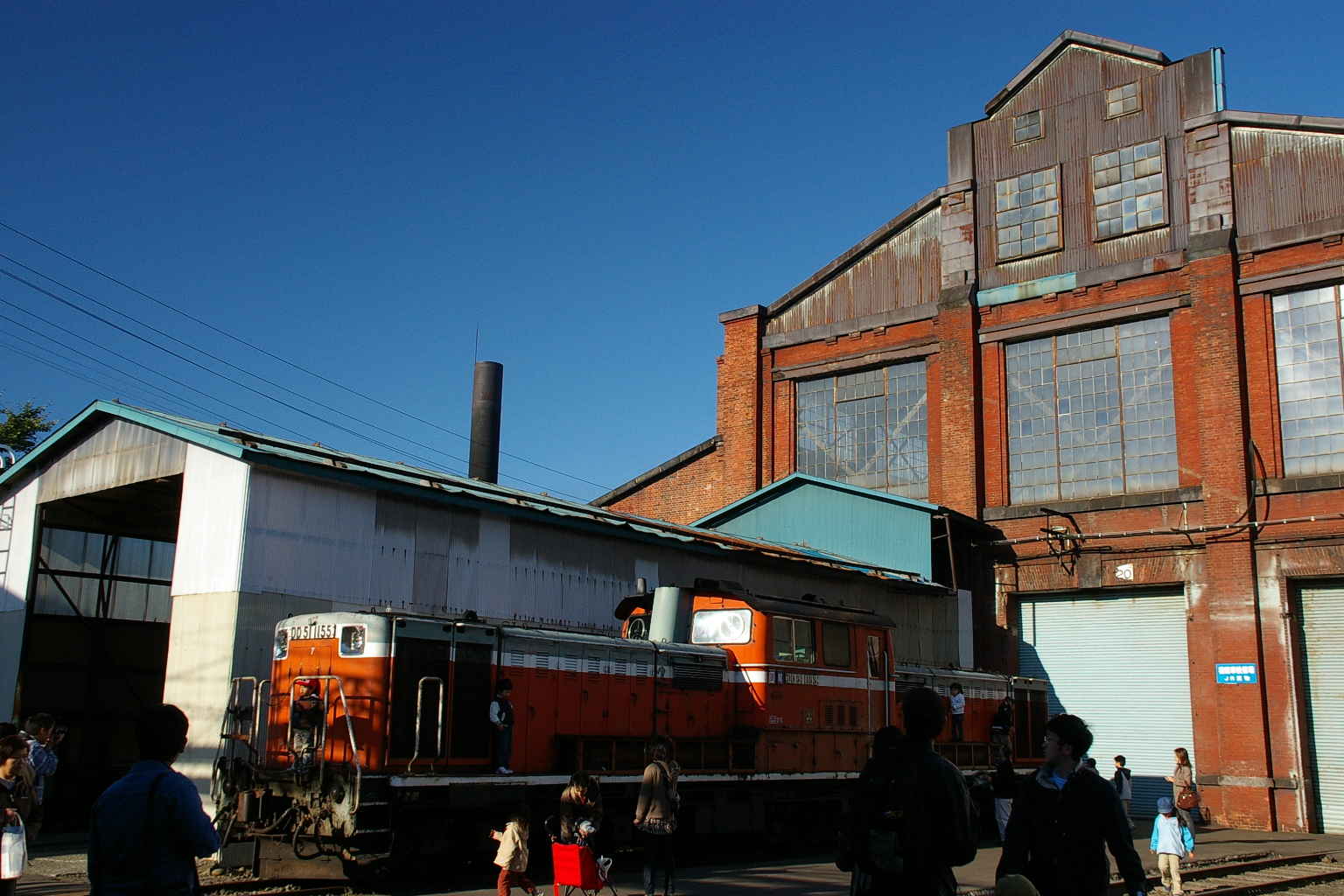 JR Hokkaido Naebo Workshop